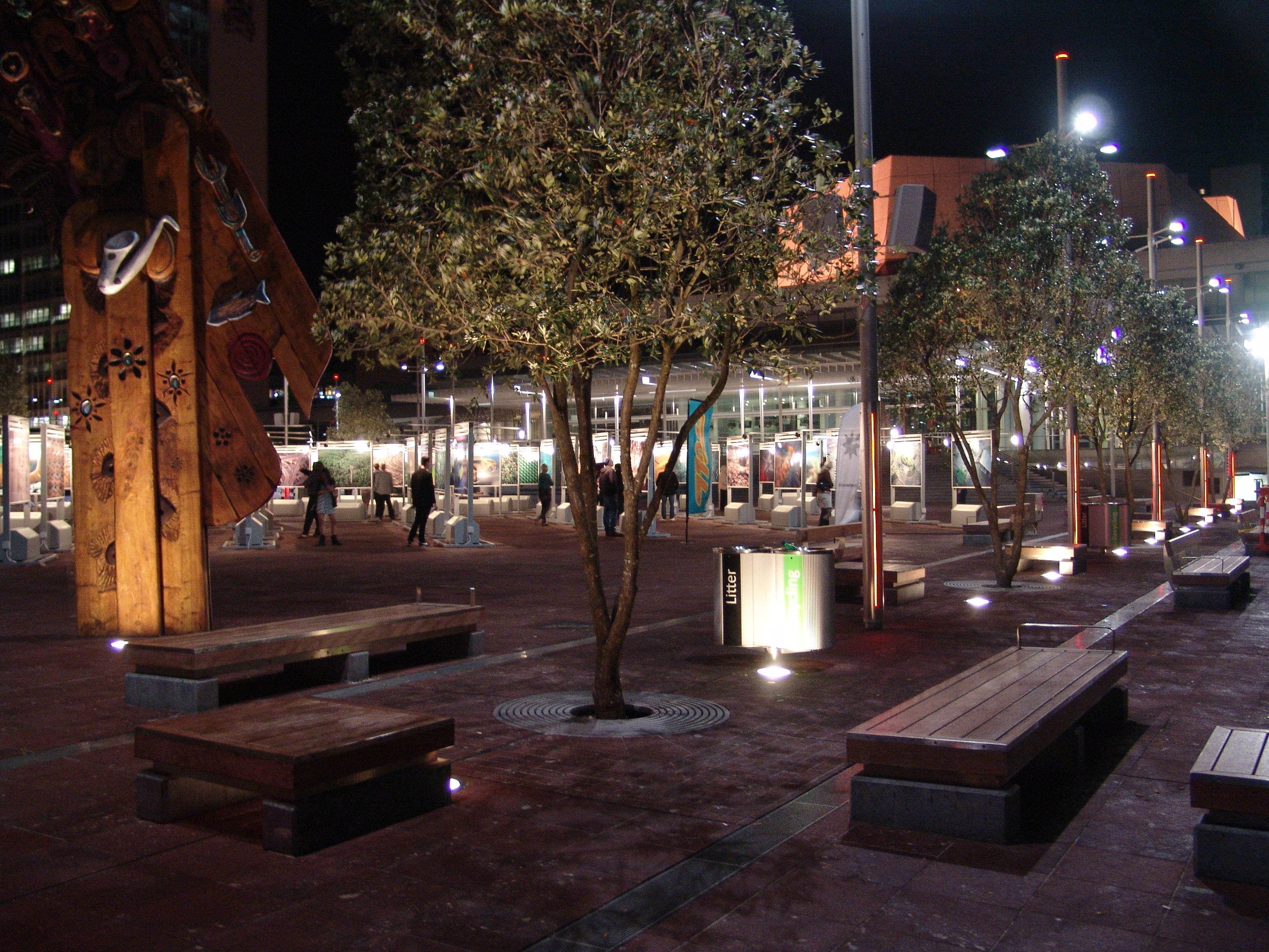 Art Installation - Aotea Square - 02